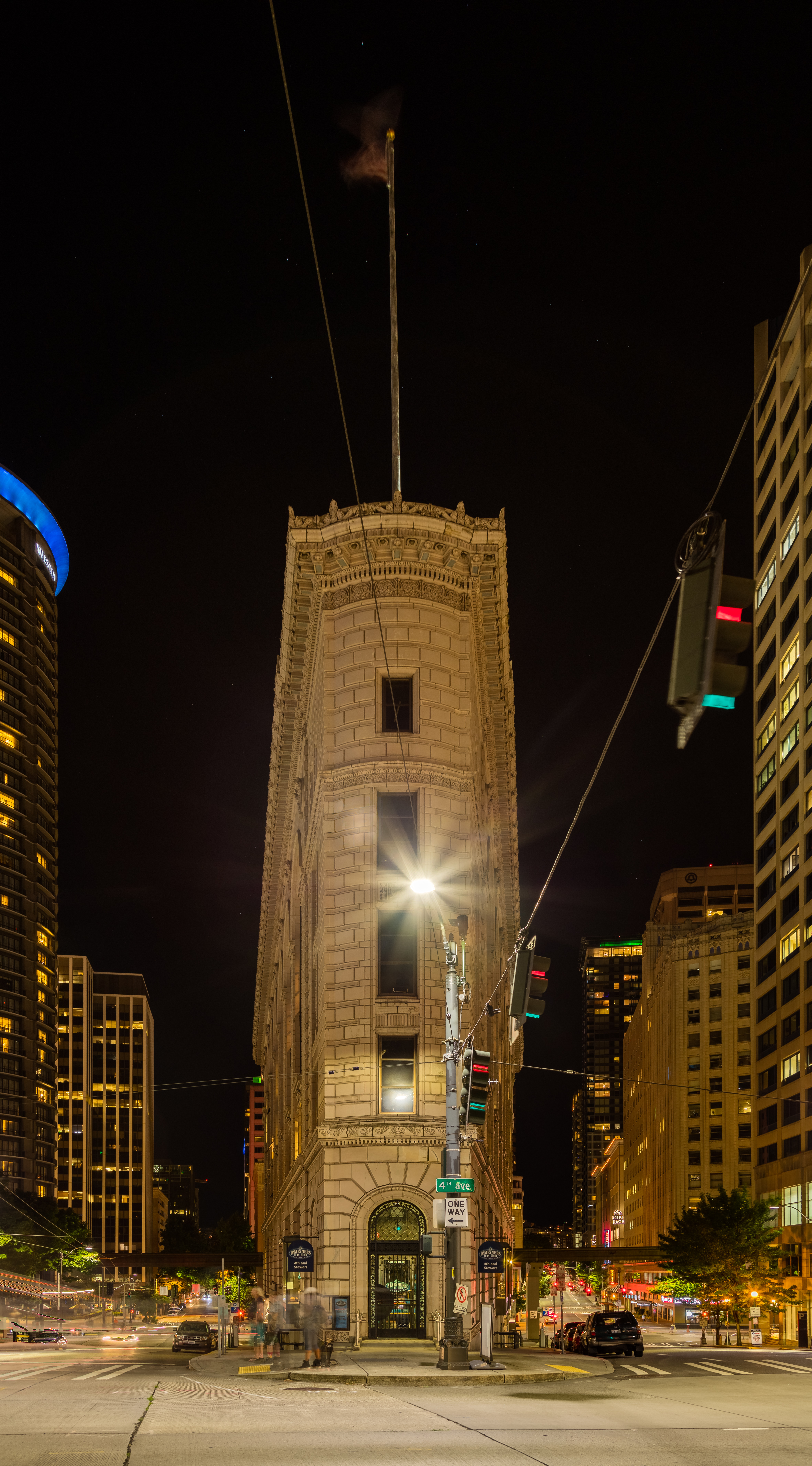 Old Seattle Times Building, Seattle, Washington, United States